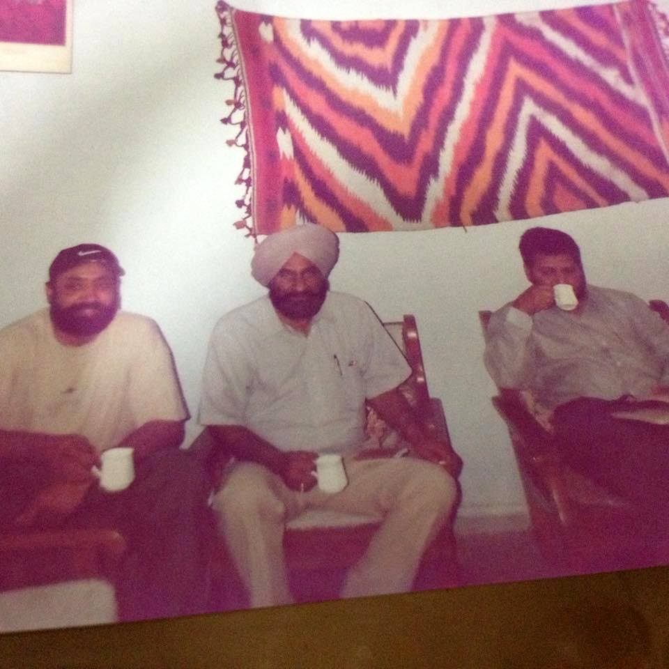 Punjabi language writers Dr. Jagtar , (middle), Harvinder (left) and Surjit Judge ( right) , sitting at home of Harvinder Singh in early years of 2010 decade .